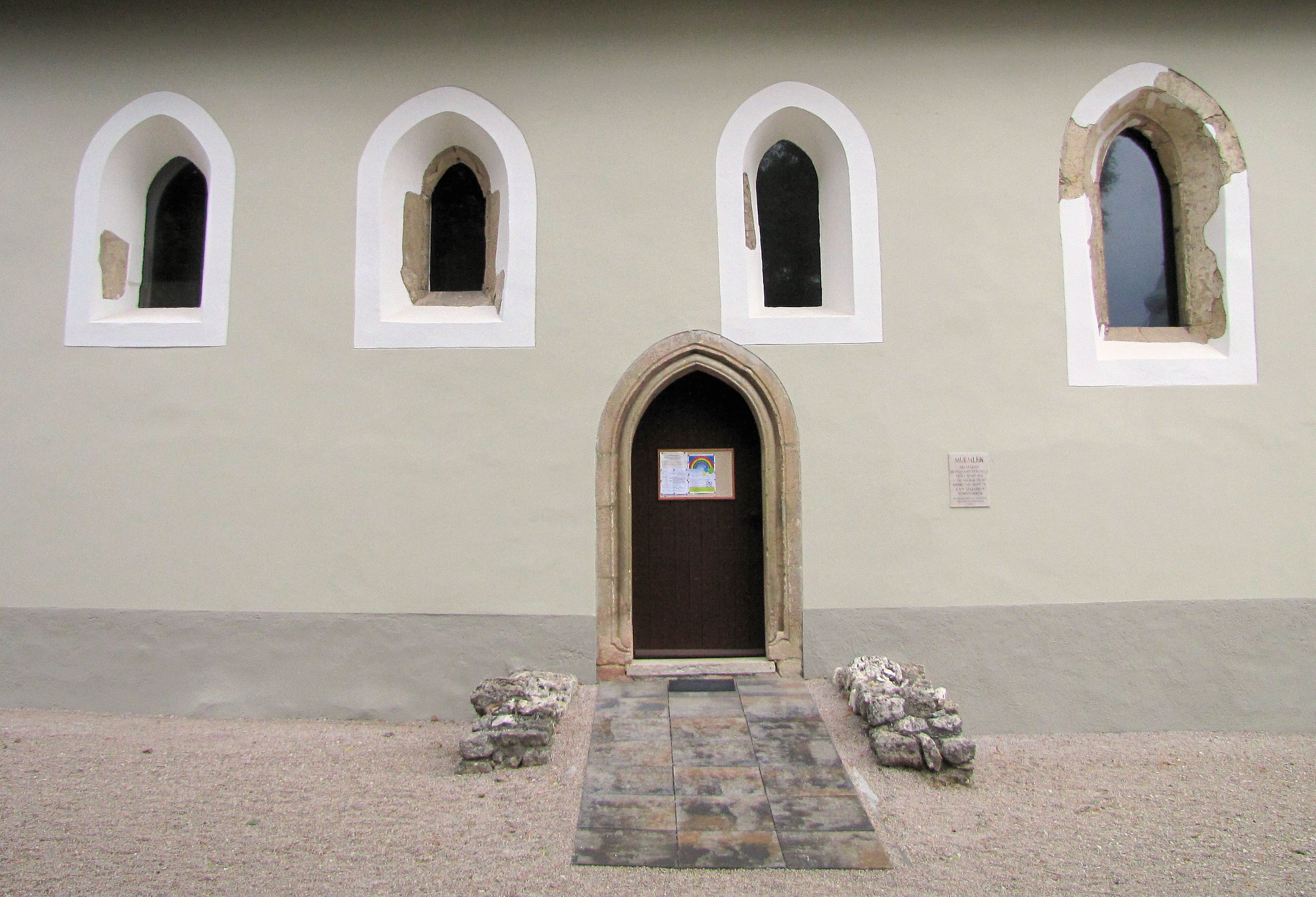 Roman Catholic Church, Fehérvárcsurgó, Hungary. Built in the 13th Century and rebuilt in the 14th, its recent tower is a Baroque construction.